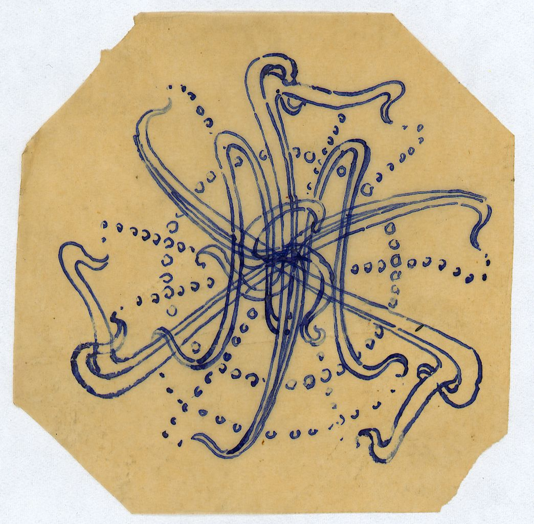 Sketch of an ornament by Victor Horta)